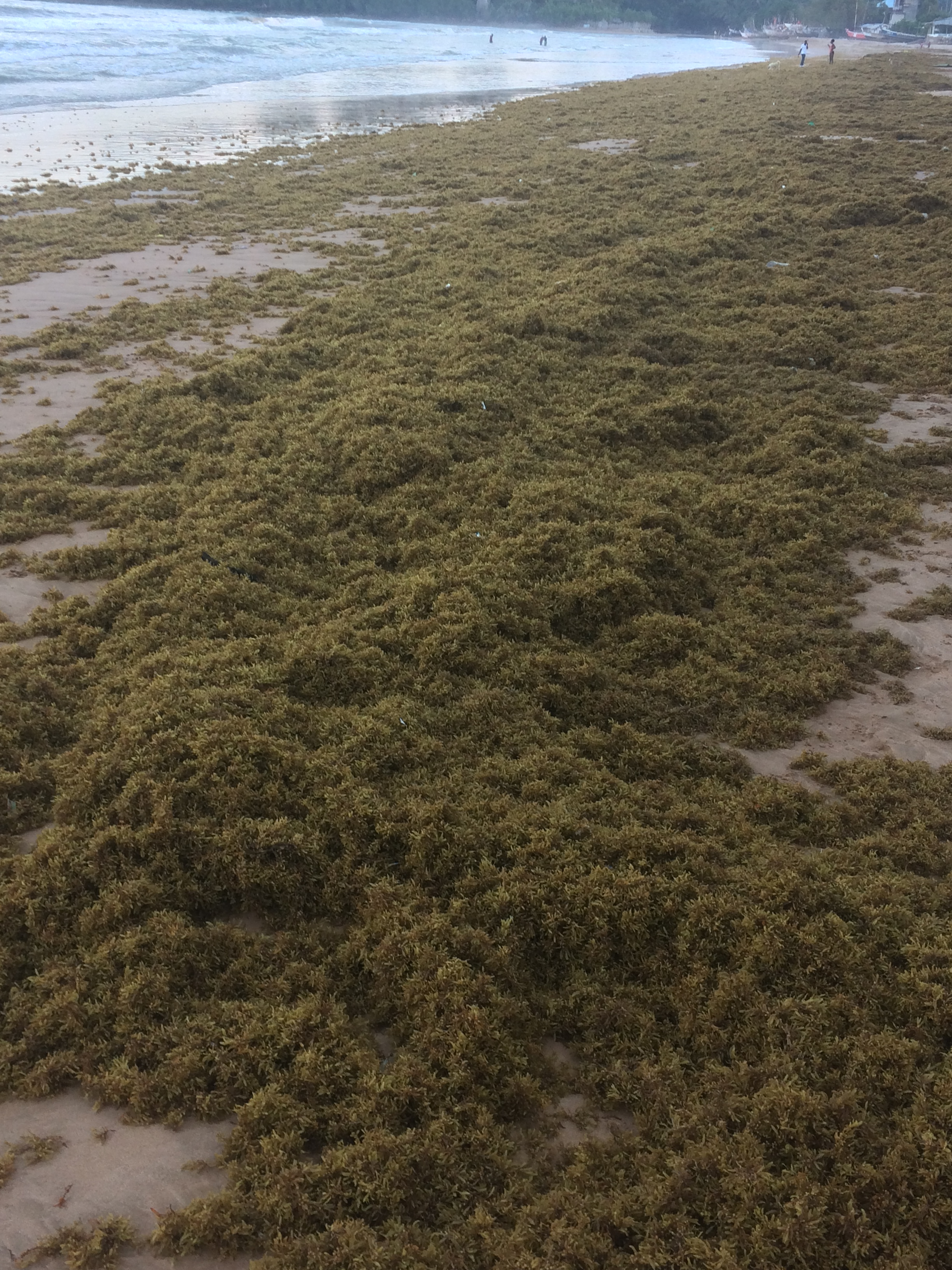 Fresh seaweed wash at ashore This is a file of Ghanaian Natural Heritage with ID